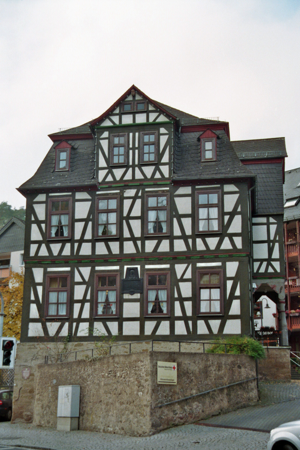 Hartighaus in Dillenburg